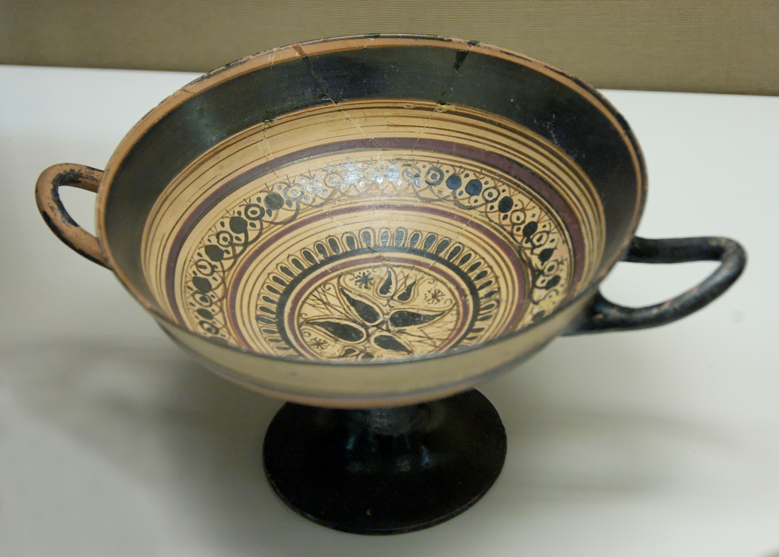 Lakonian black-figured kylix with floral patterns, ca. 550–530 BC.